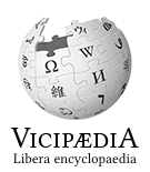 Wikipedia logo 2.0 (mk) (identical to .sr version, but separate mk version has to exist (see Wikipedia/2.0)